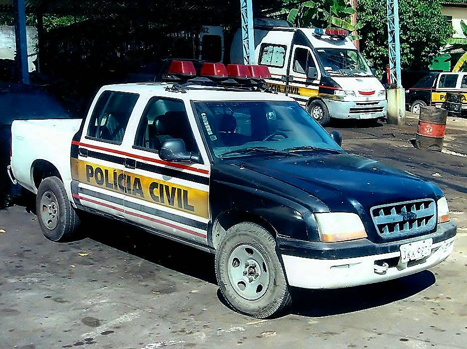 Police car - Civil Police State of Amazonas - Brazil